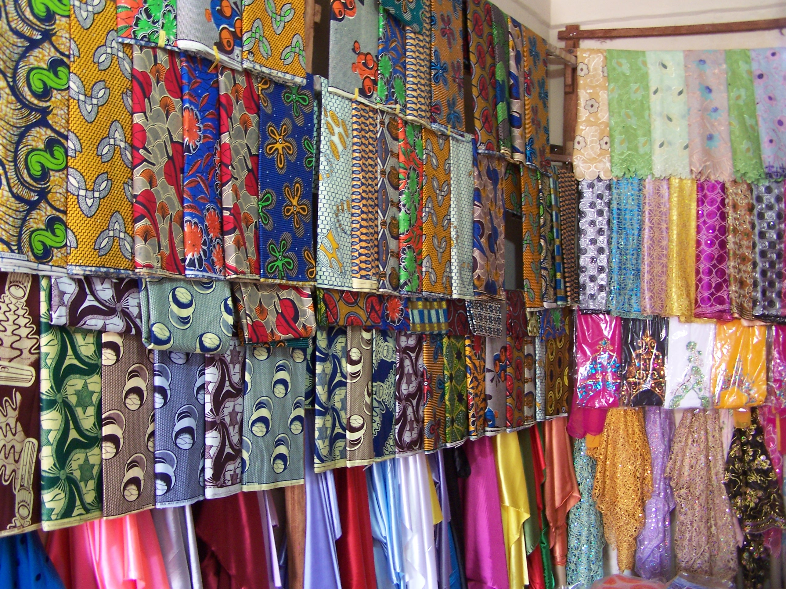 Brikama Batik Store, Tanji, Gambia.